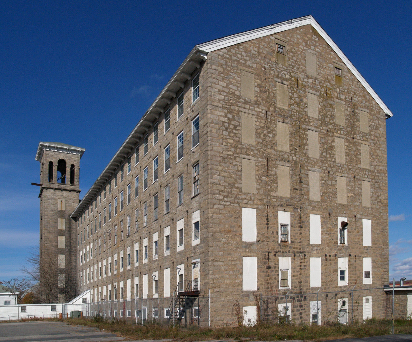 Chace Mill, Fall River, Massachusetts, built 1871